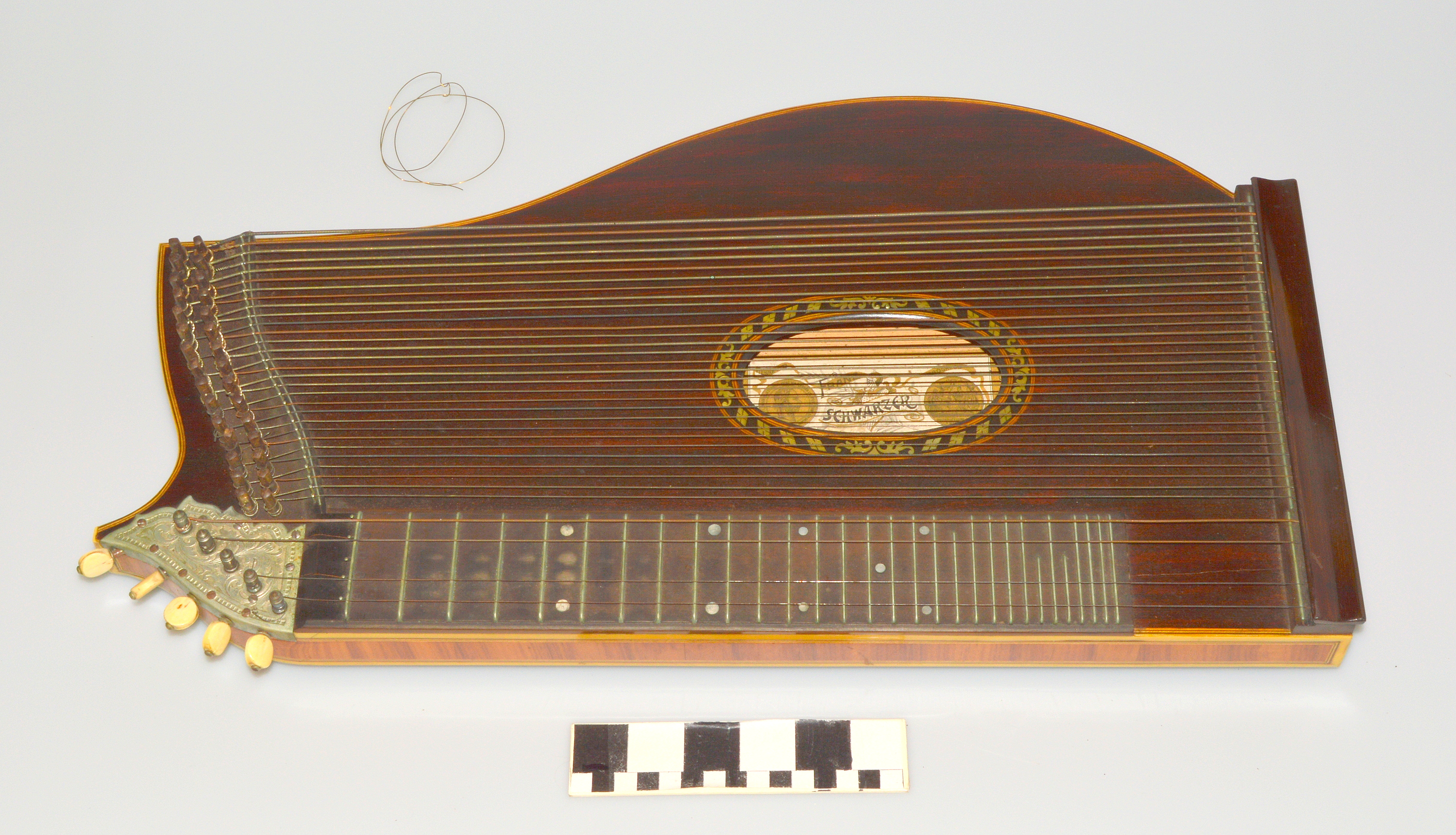 Concert zither and case made in 1896 by Franz Schwarzer Zither Co., Washington, Missouri Title: Concert Zither and Case by Franz Schwarzer Zither Company